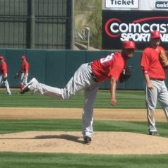 Rafael Rodriguez delivers warm up pitches for the Los Angeles Angels of Anaheim during 2010 spring training in Arizona